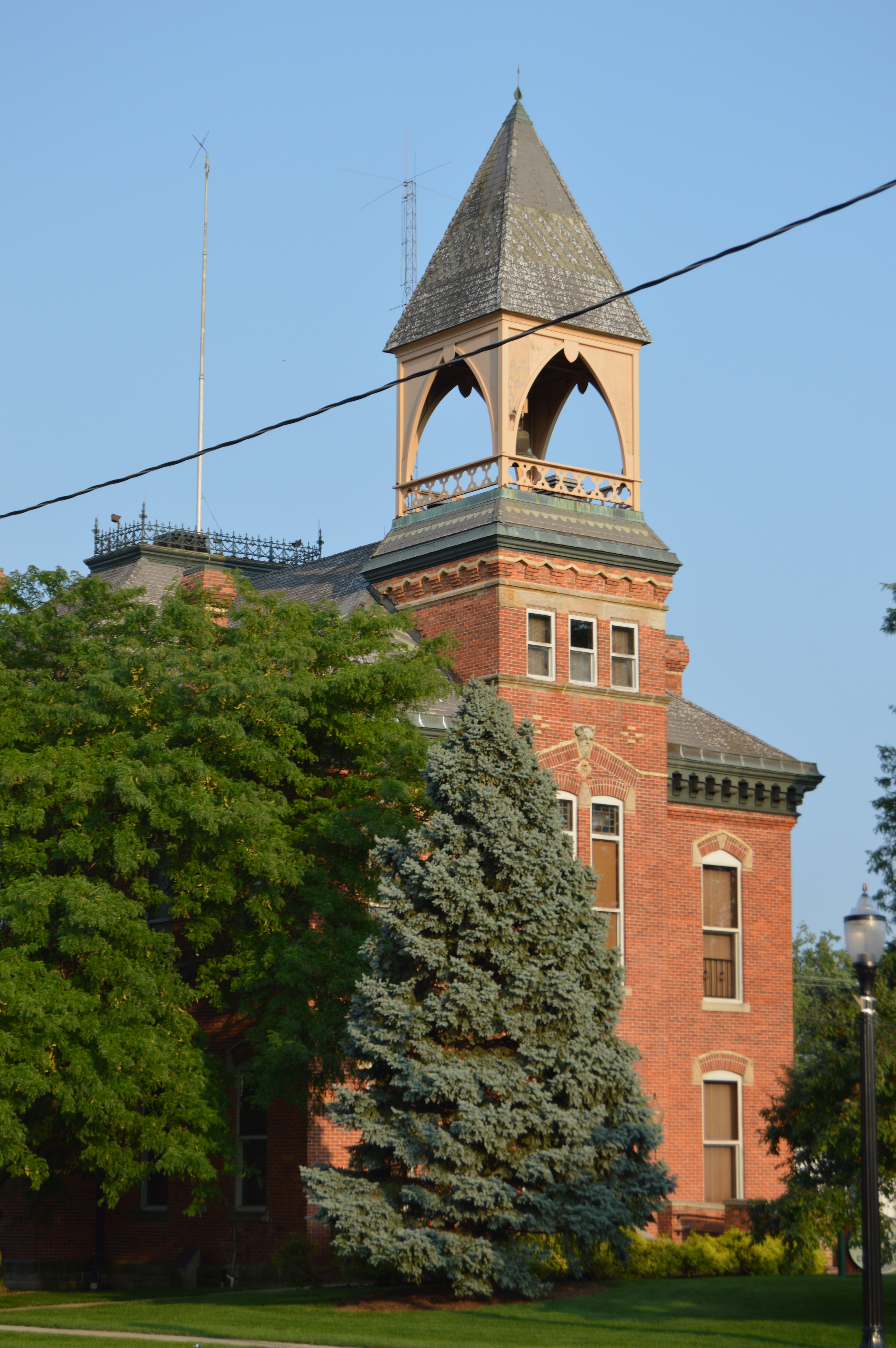 Front of the Genoa Town Hall, located on the southeastern corner of the junction of Sixth and Main Streets in Genoa, Ohio, United States. Built in 1885, it is listed on the National Register of Historic Places.